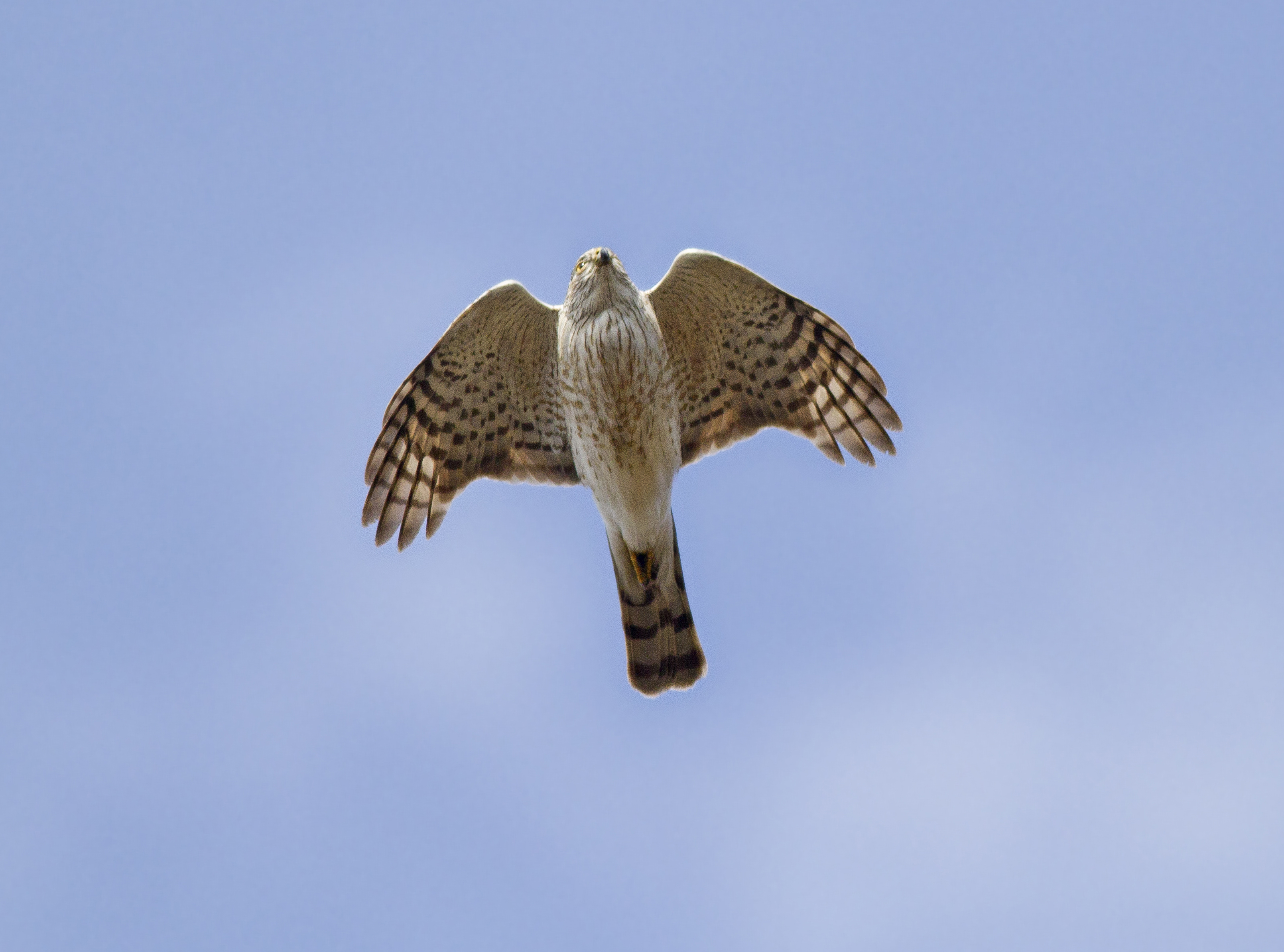 Sharp-shinned Hawk (Accipiter striatus), Michigan